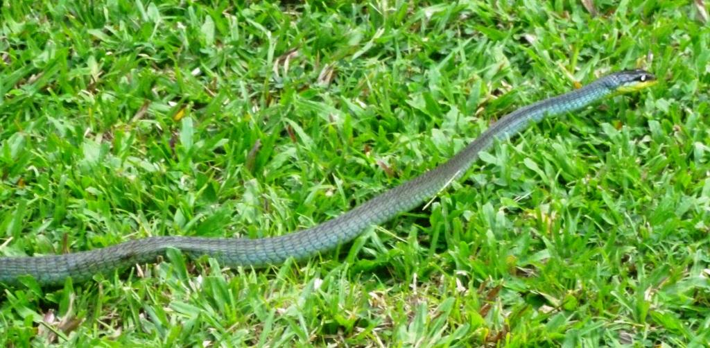 Photo showing distinctive tripe through eye taken near Co